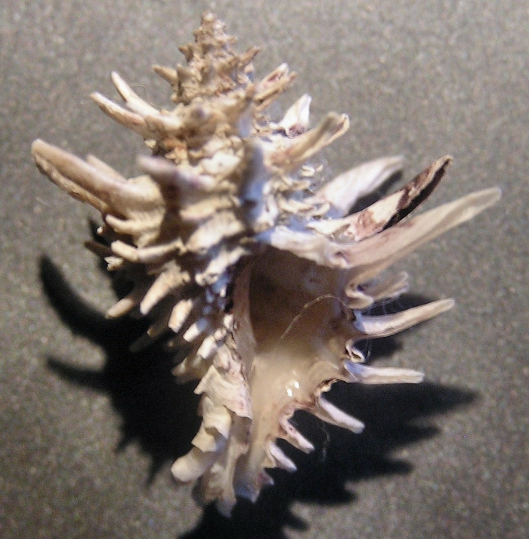 Babelomurex wormaldi (synonym :Latiaxis wormaldi) (A. W. B. Powell, 1971), a coral snail form the family Muricidae; Philippines